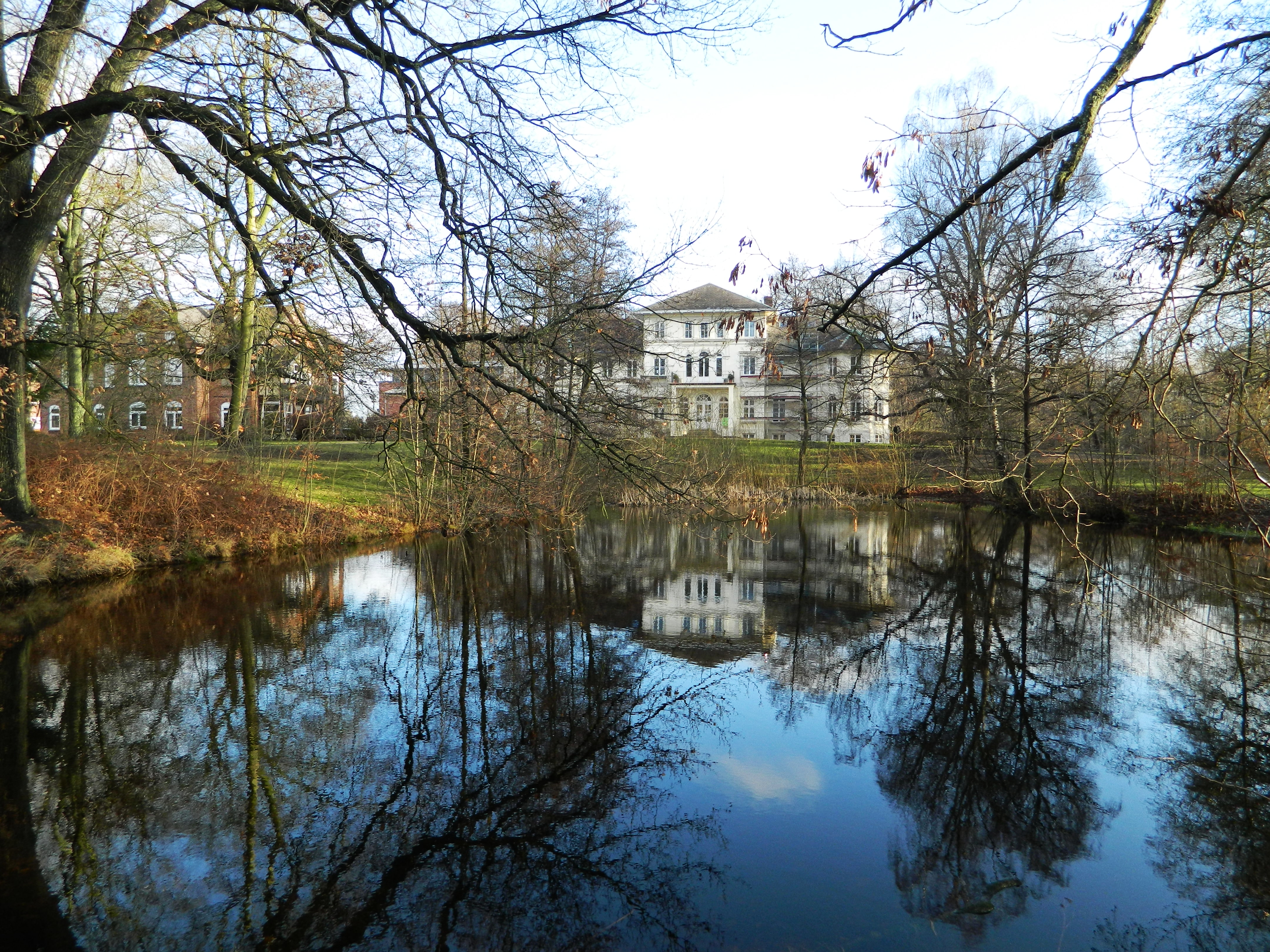 Parkteich vor dem Berner Schloss This is a photograph of an architectural monument.